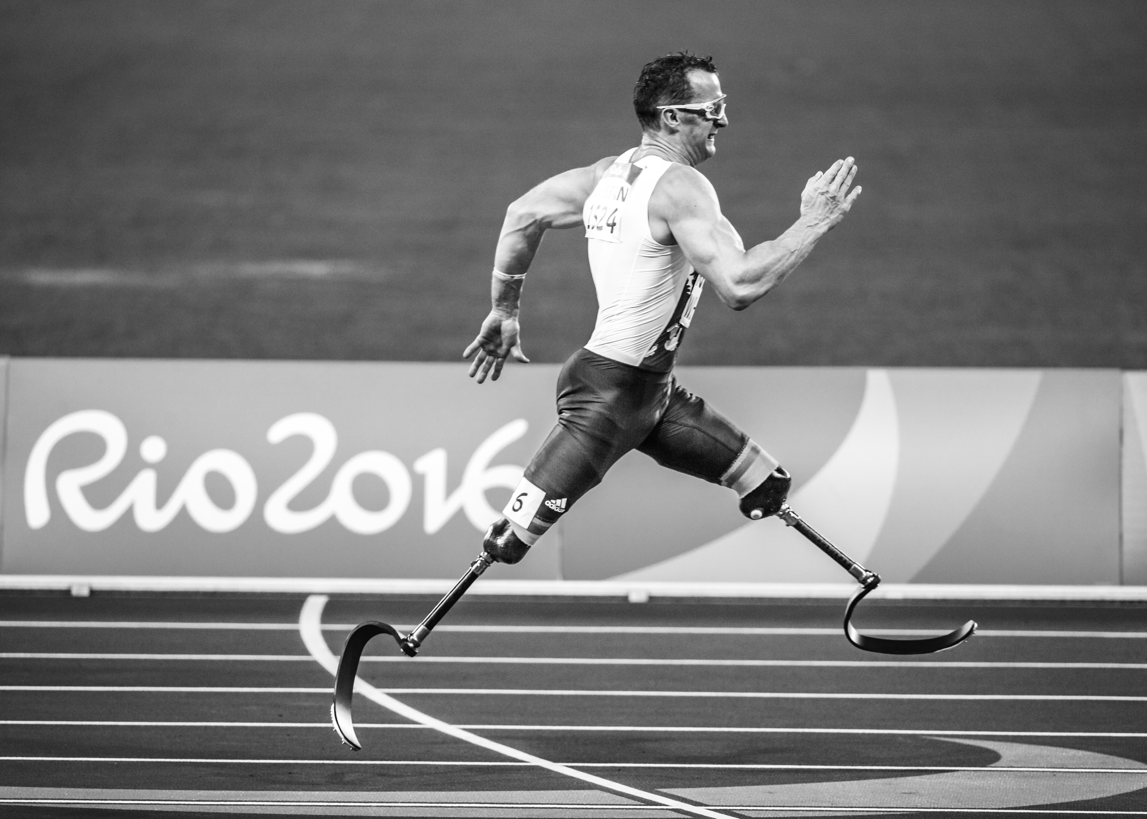 A runner in the Rio 2016 Paralympic Games